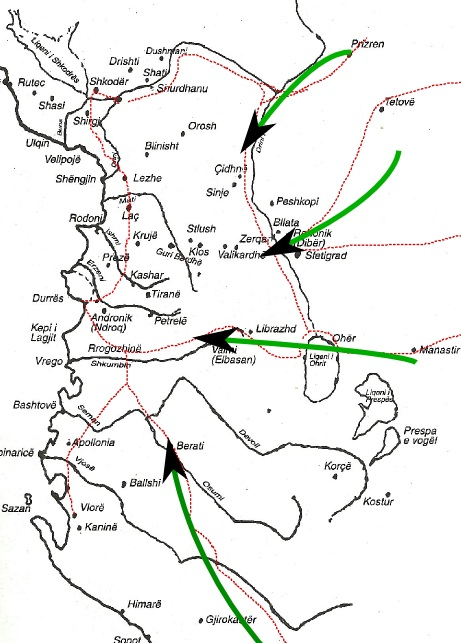 The main roads through Albania and the most common Ottoman invasion routes. (Red dotted line = main routes through Albania; green line w/ black arrowhead = most common Ottoman invasion routes.)